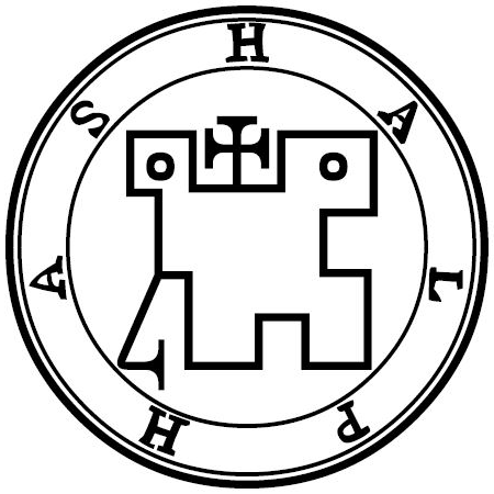 Halphus seal, THE BOOK OF THE GOETIA OF SOLOMON THE KING (1904)